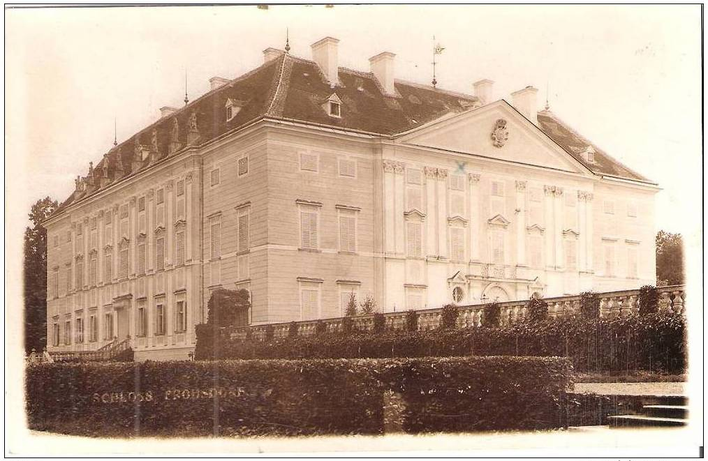 Schloss Frohsdorf 1890-1900